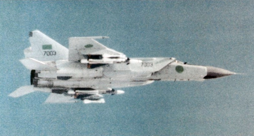 A Libyan Mikoyan-Gurevich MiG-25. The photo was taken from an aircraft from the U.S. Navy aircraft carrier USS Coral Sea (CV-43) during her deployment to the Mediterranean Sea from 1 October 1985 to 19 May 1986.